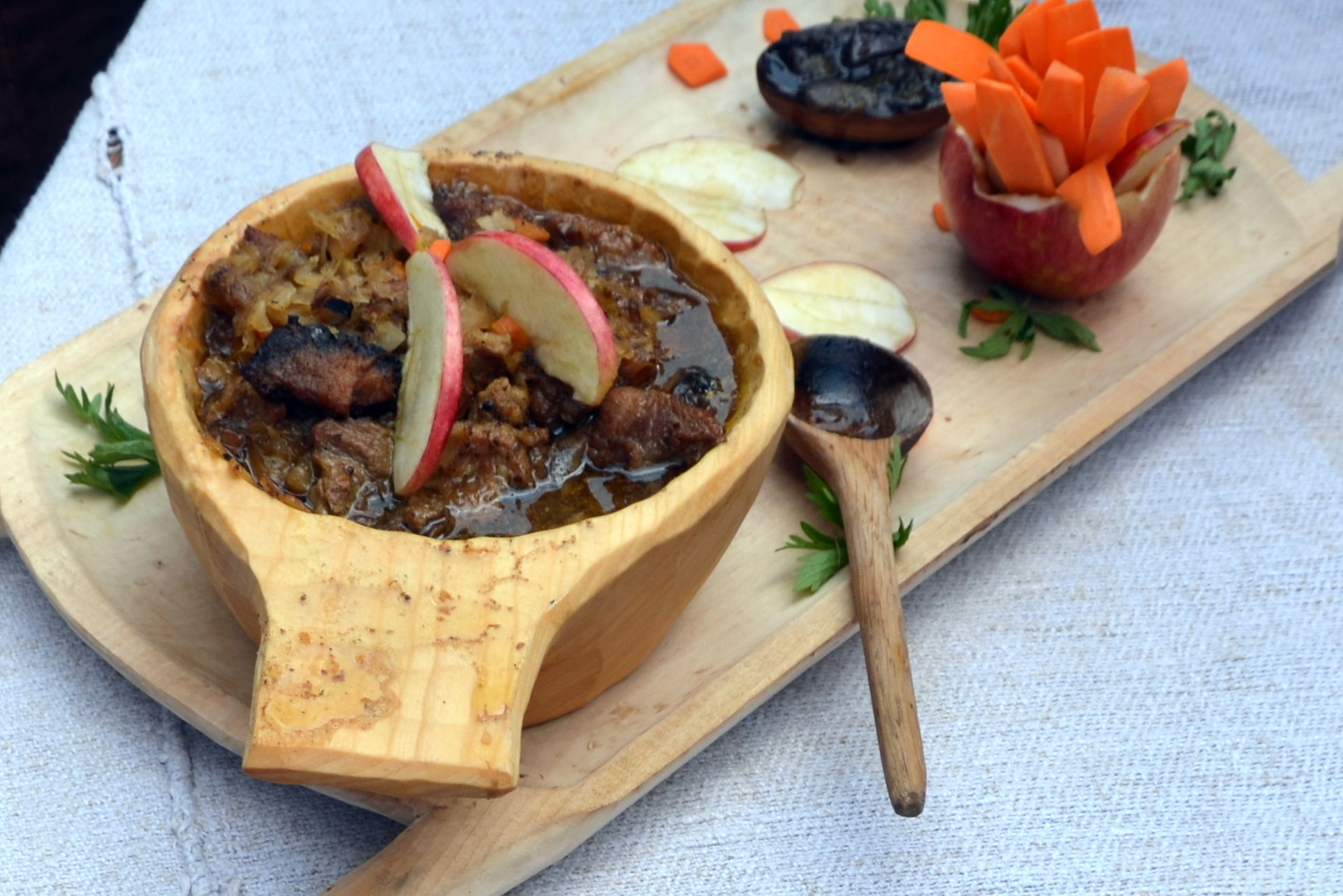 Die Küche des Frühmittelalters